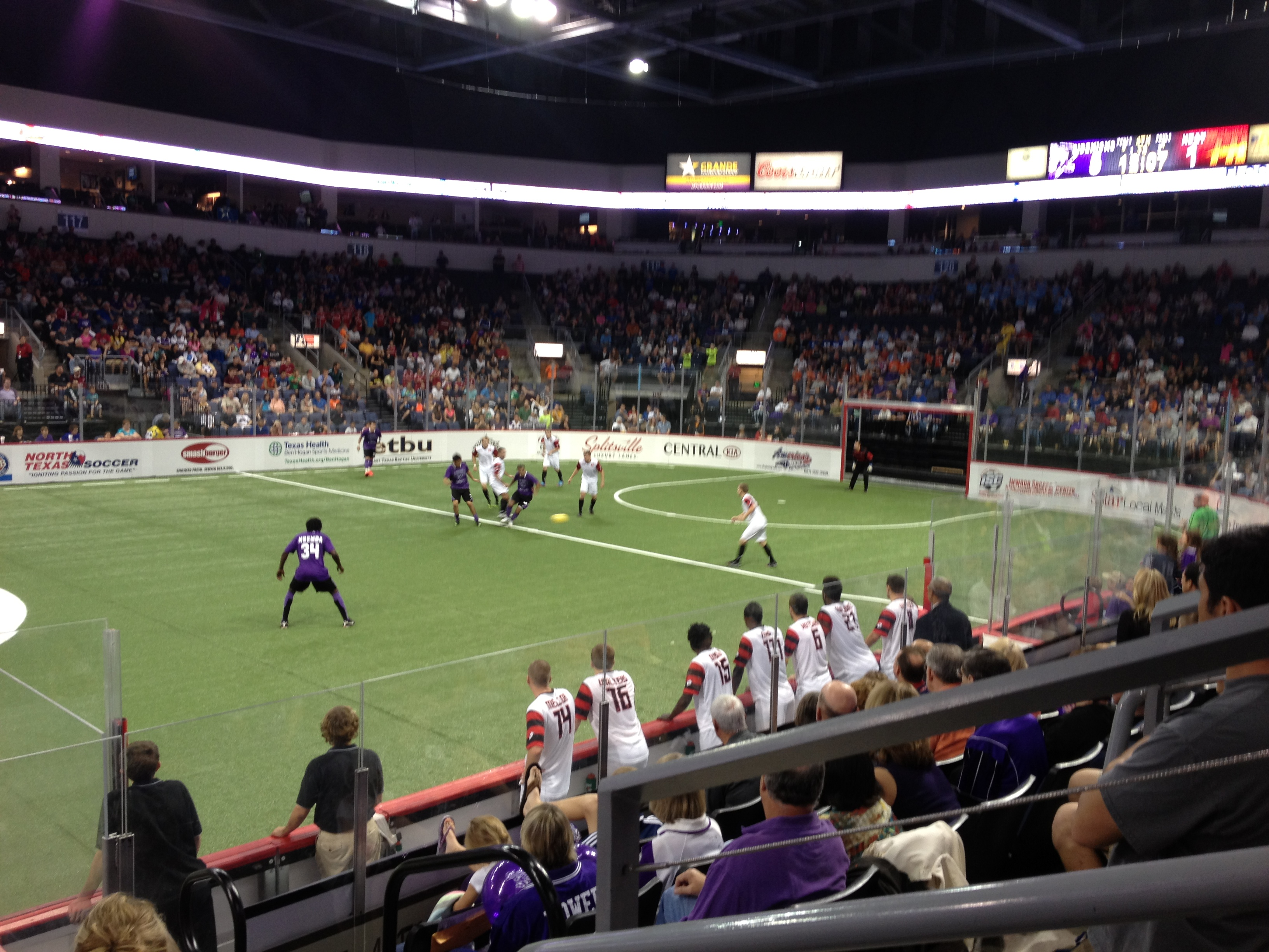 The new Dallas Sidekicks during their season-opening match against the Harrisburg Heat on November 3, 2012, at the Allen Event Center in Allen, Texas.